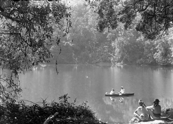 Lake Telaga Warna